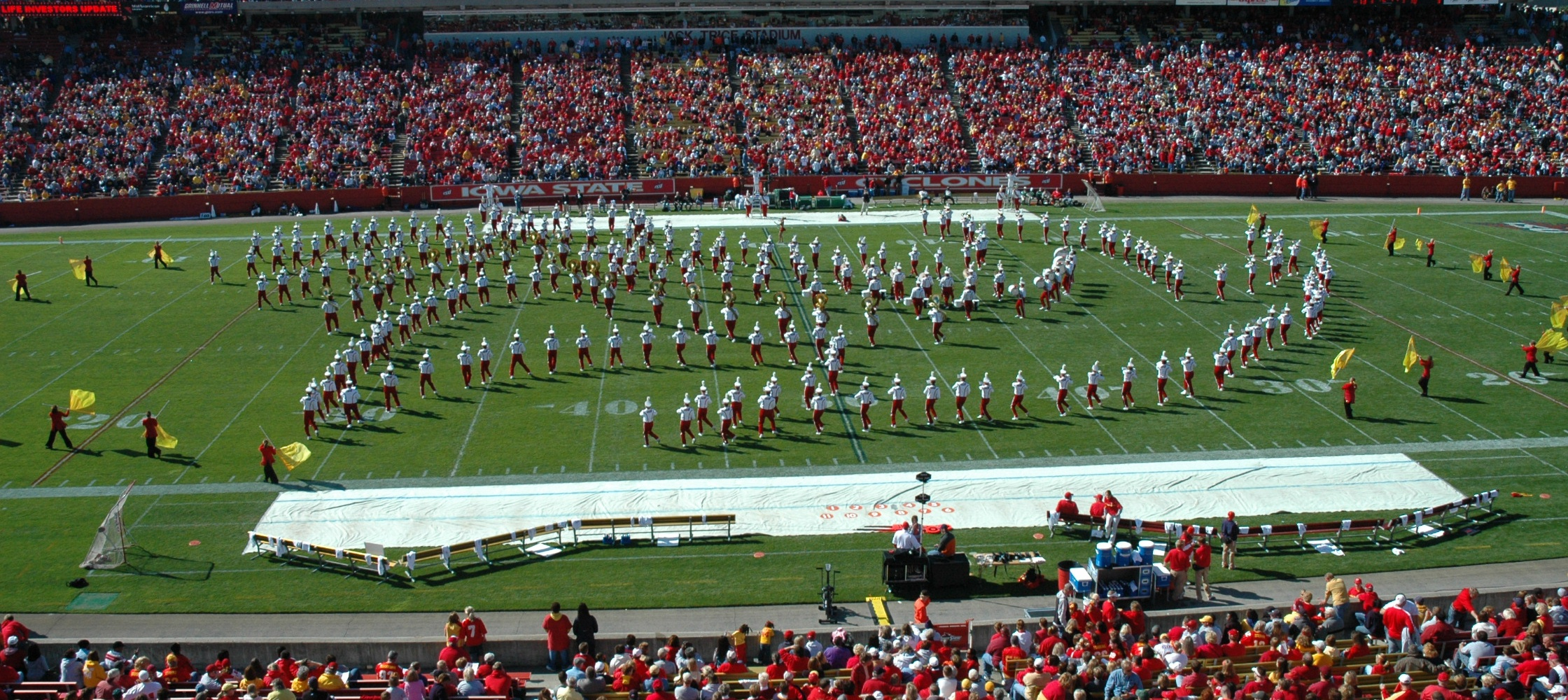 The Cyclone Marching Band performing "Malaga!" in 2005.